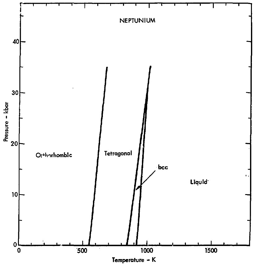 These 1975 phase diagrams are generally incomplete, reaching at most 250 kbar (25 GPa) and thus lacking many high-pressure metallic phases. Taken from "Phase Diagrams of the Elements", David A. Young, UCRL-51902 "Prepared for the U.S. Energy Research & Development Administration under contract No. W-7405-Eng-48". From the document, "DISTRIBUTION OF THIS DOCUMENT IS UNLIMITED"; printed copies were available from the National Technical Information Service.